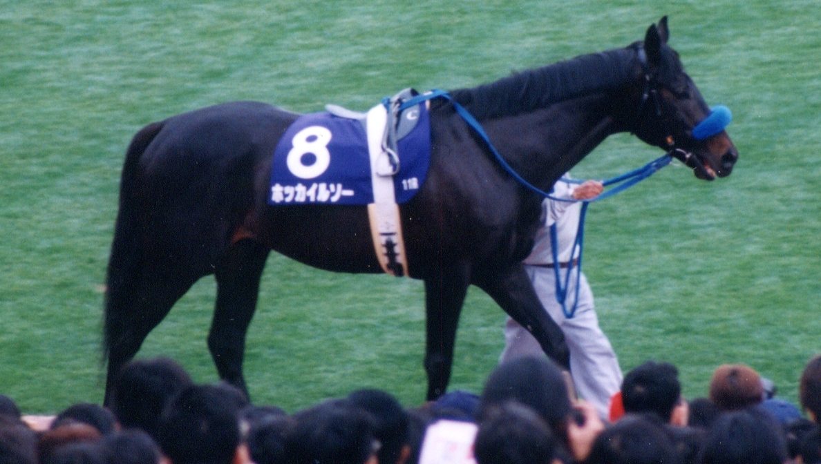 Hokkai Rousseau